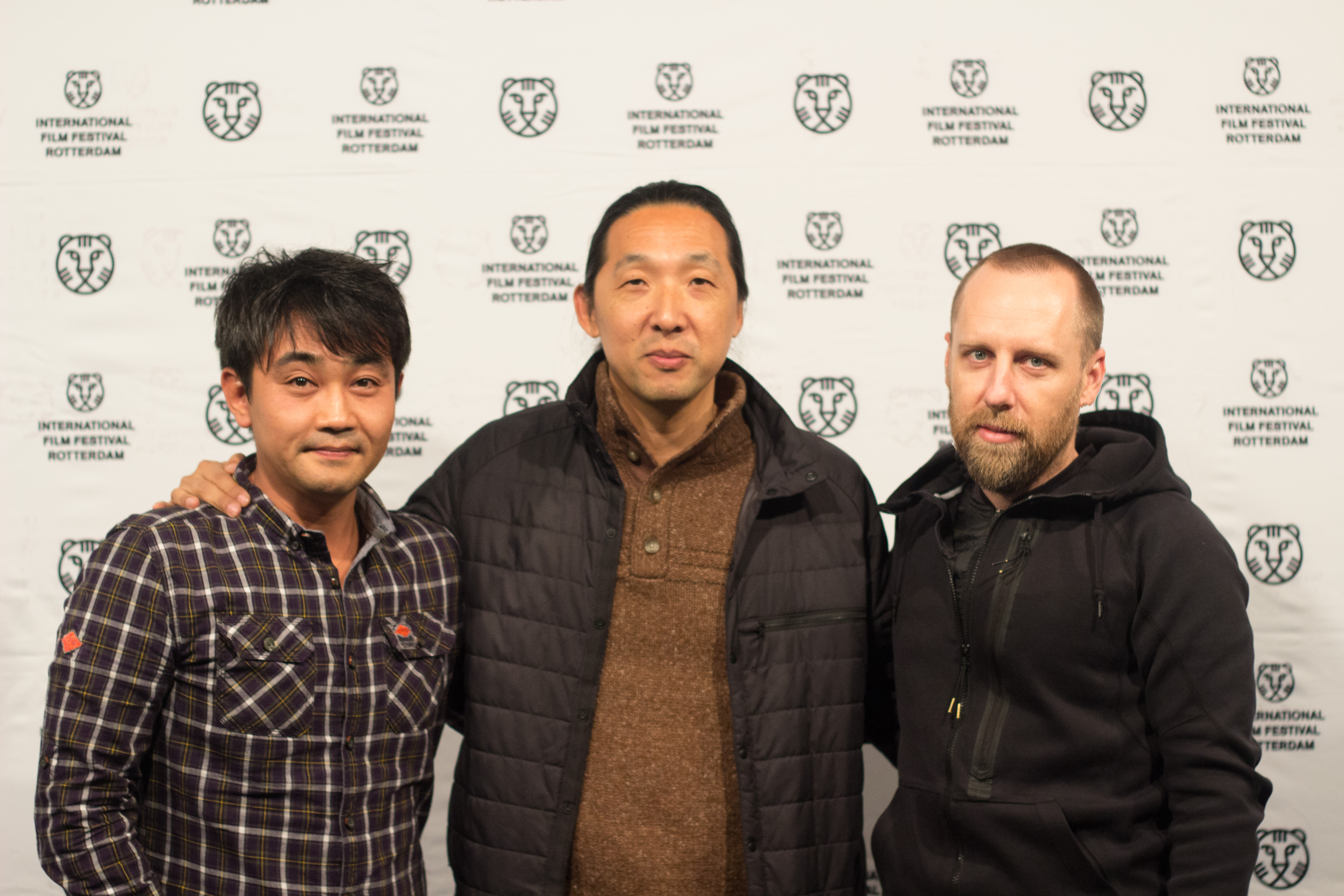 Ki Jin Kim,kogonada ,Elisha Christian